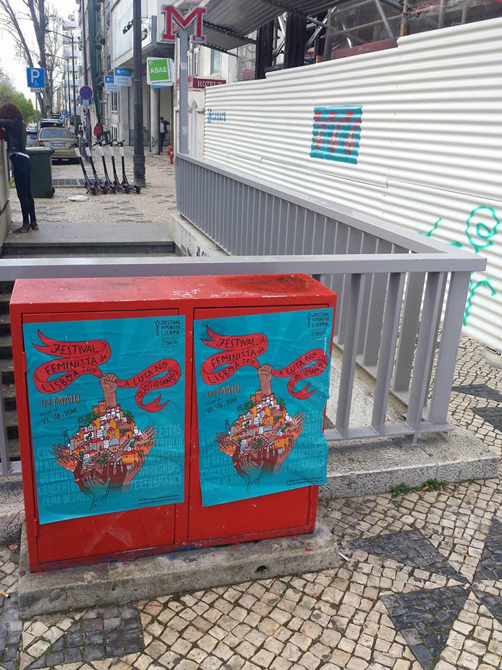 Cartaz da segunda edição do Festival Feminista de Lisboa à entrada da estação do metro em Lisboa (2019)